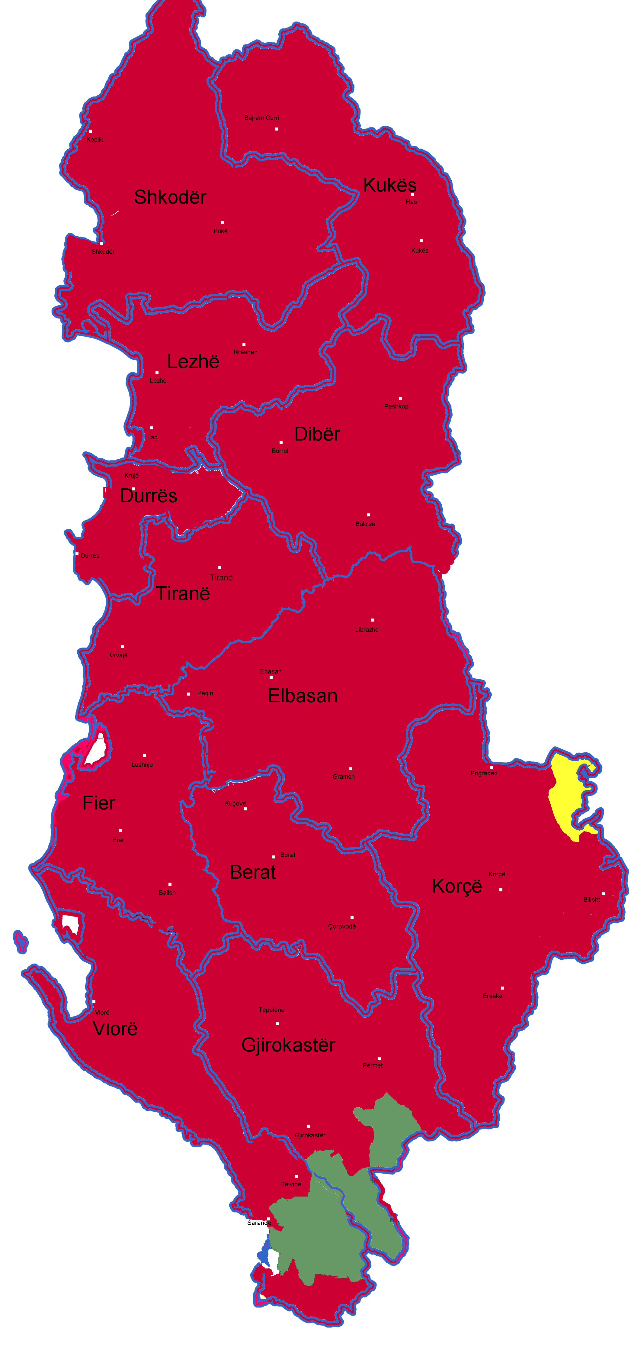 Ethnic composition of Albania, according to 1989 communist census, municipality data